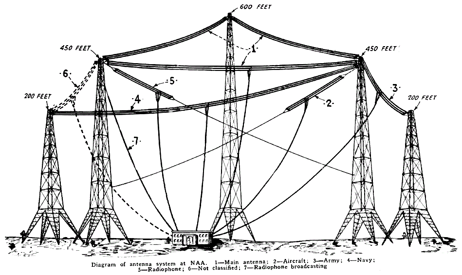 Towers and antenna system used by the U.S. Navy's radio station NAA in Arlington, Virginia in 1923